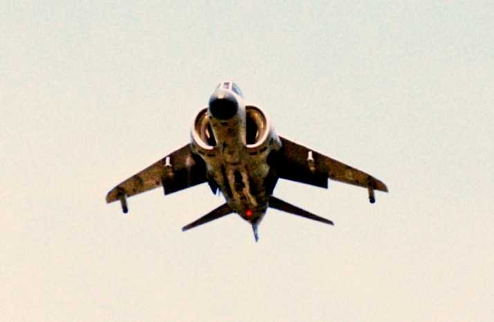 A Royal Navy Sea Harrier FRS1. This was the type used by Fleet Air Arm during the Falklands War. The upgraded version, the FA2 was withdrawn from service in 2006.